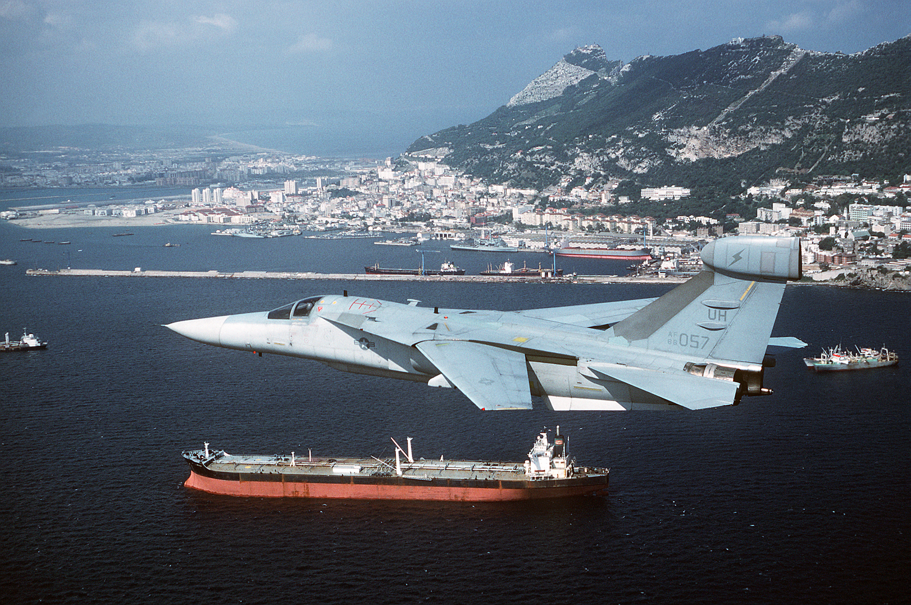 An air-to-air left side view of a 42nd Electronic Combat Squadron EF-111A; Raven aircraft flying past the Rock of Gibraltar during Open Gate '89. Open Gate is a Joint Chiefs of Staff/NATO exercise designed to simulate air and sea power tactics required to keep the Straits of Gibraltar open during a crisis.